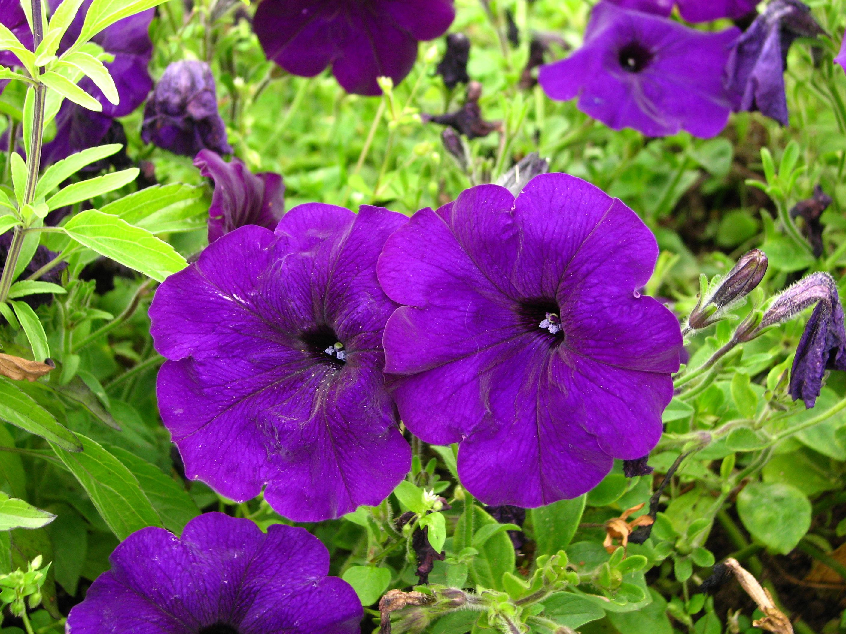 Flower beds in park Kolomenskoye (Moscow).